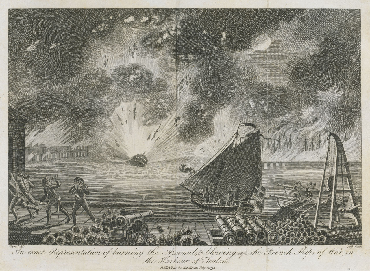 An exact Representation of burning the Arsenal & blowing-up the French Ships of War in the Harbour of Toulon. 1793.